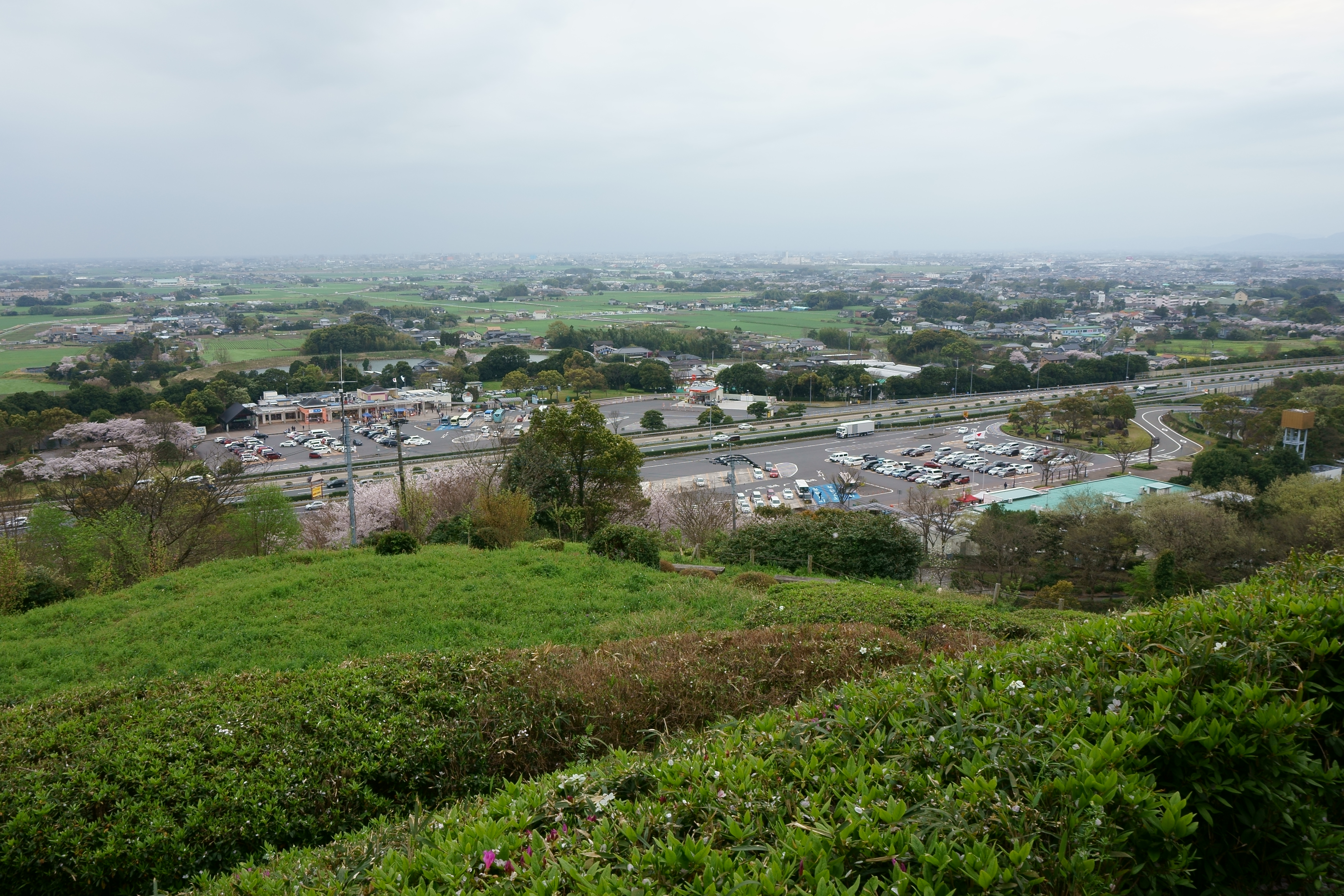 Kinryu Service Area in Nagasaki Expressway from view point of Mount Kinryu, in Saga city, Saga prefecture.